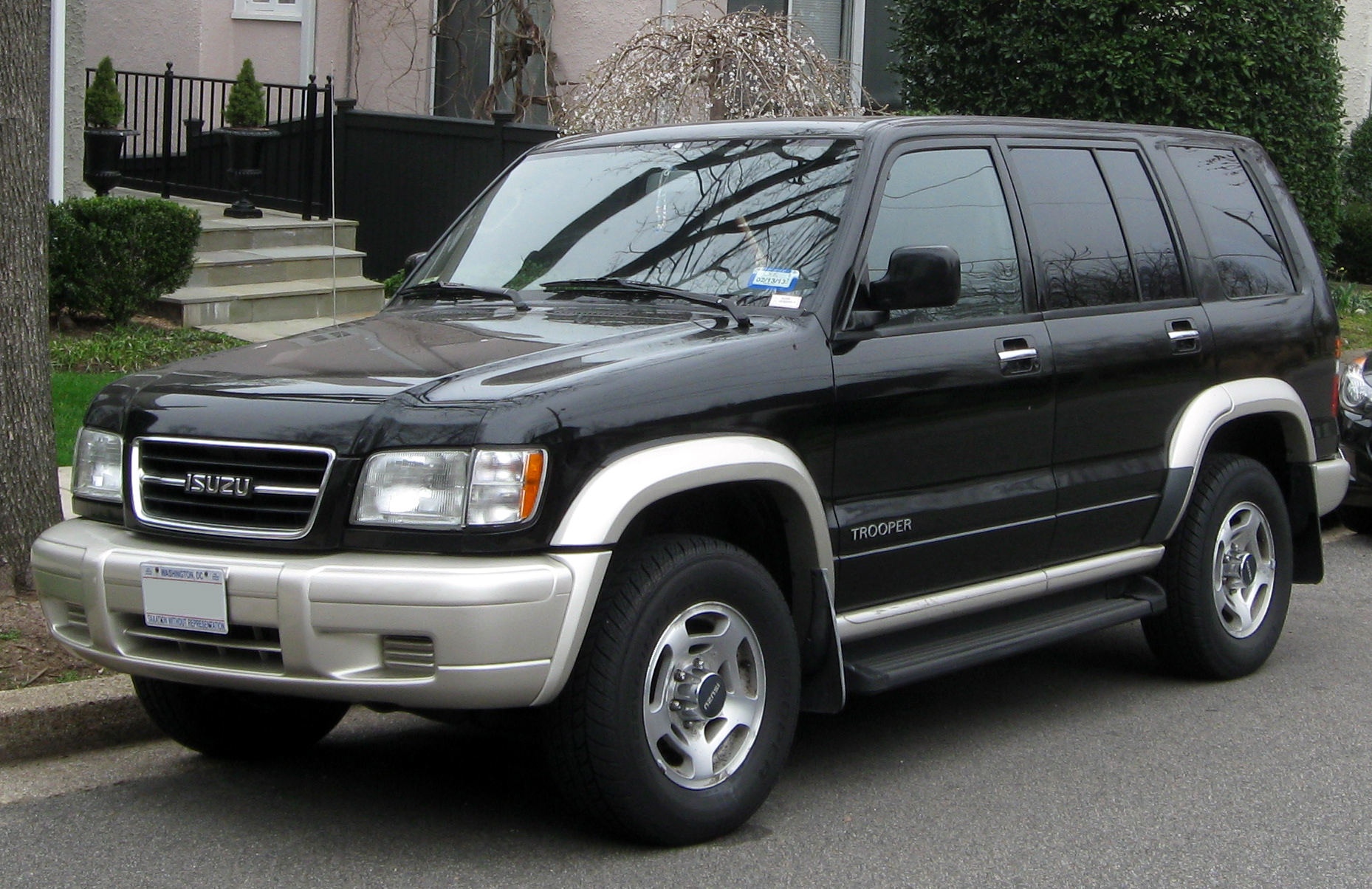 1998 Isuzu Trooper S. Photographed in Washington, D.C., USA.